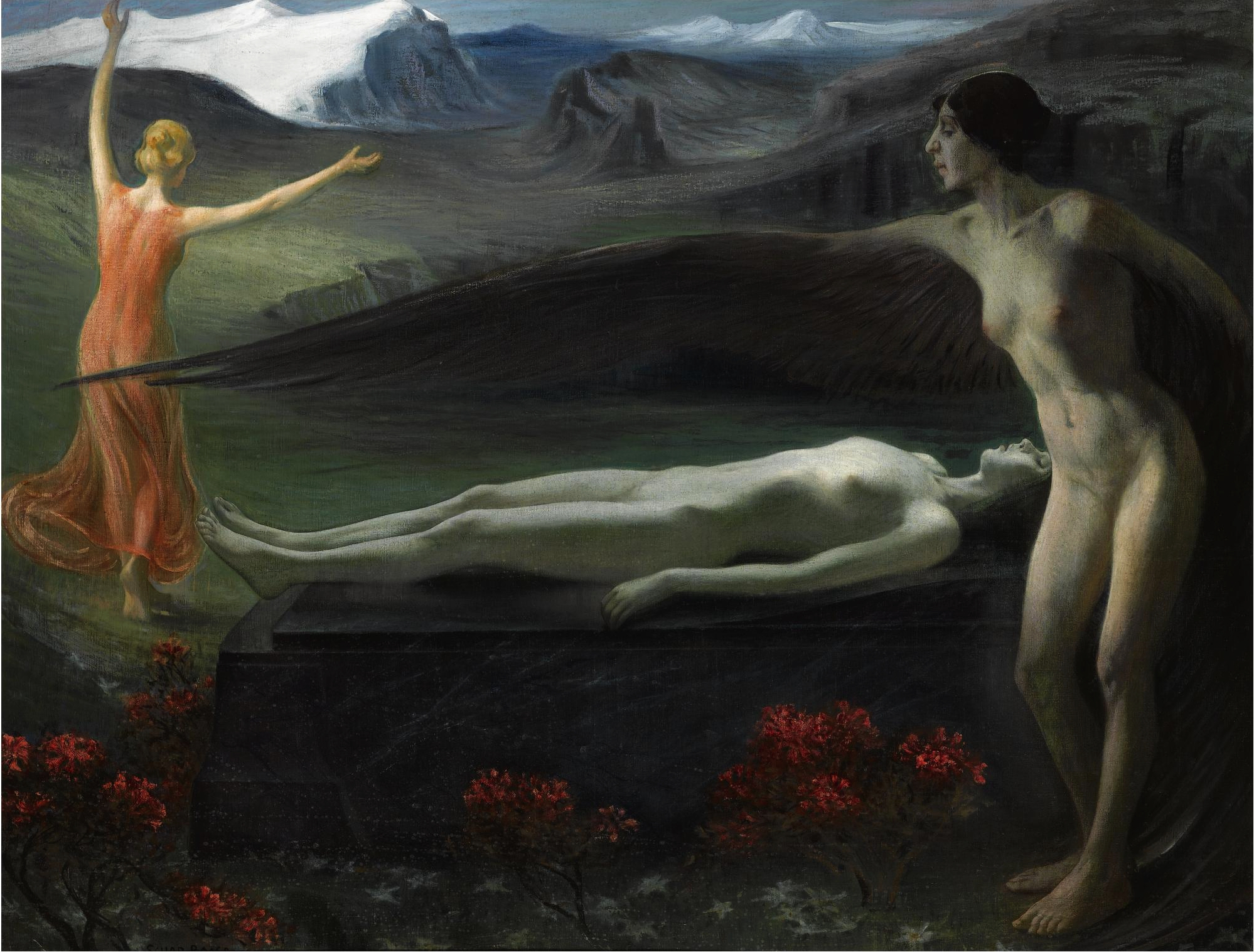 Early work of the painter